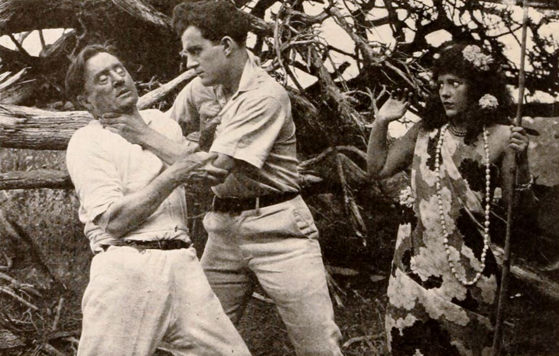 Still from the American drama film The Adorable Savage (1920) with an unidentified actor, Jack Perrin, and Edith Roberts, on page 68 of the August 21, 1920 Exhibitors Herald.